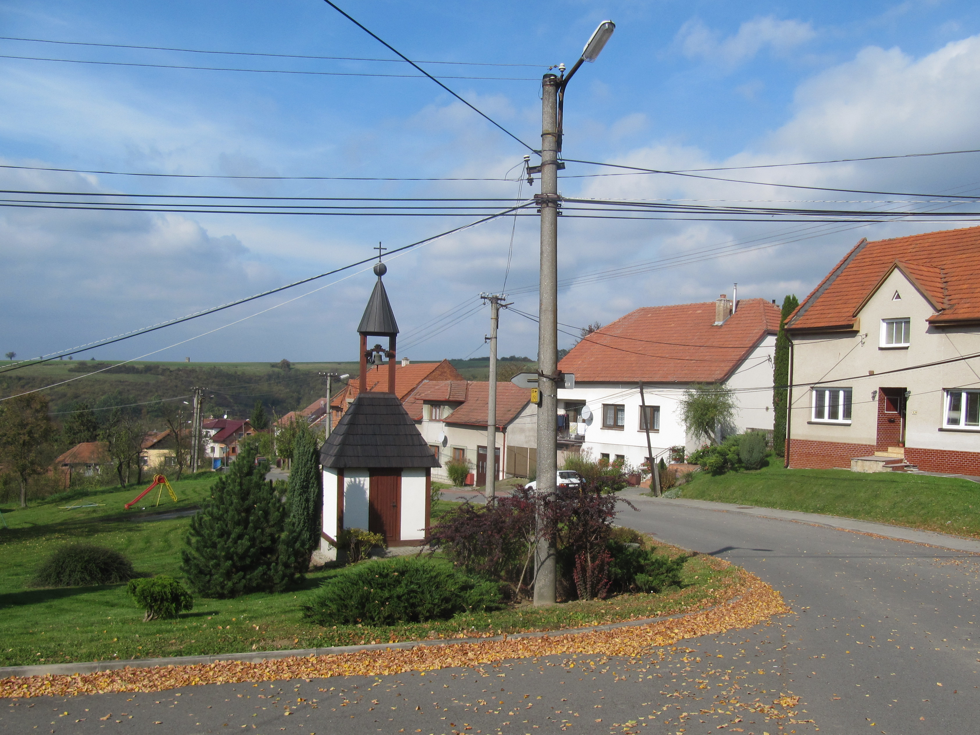 Svárov, Uherské Hradiště District, Czech Republic.